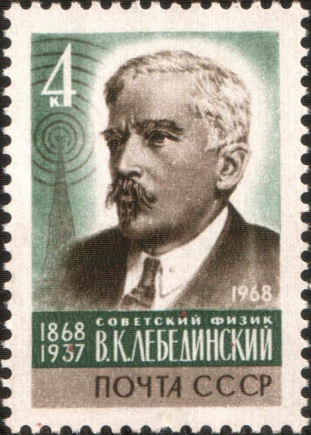 USSR Stamp: Vladimir Lebedynsky and Radio Tower. Series: Birth Centenary of Vladimir Lebedynsky (1868—1937), Russian and Soviet Physicist and Radio Technician (1868–1937)